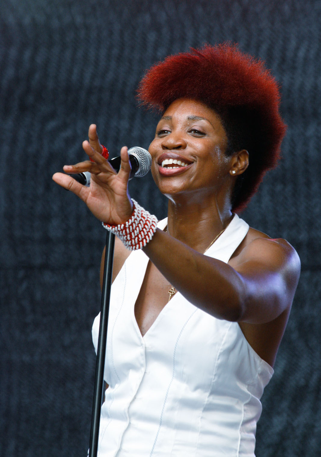 Singer N'Dambi during her concert at the Vienna Jazz Festival 2010.